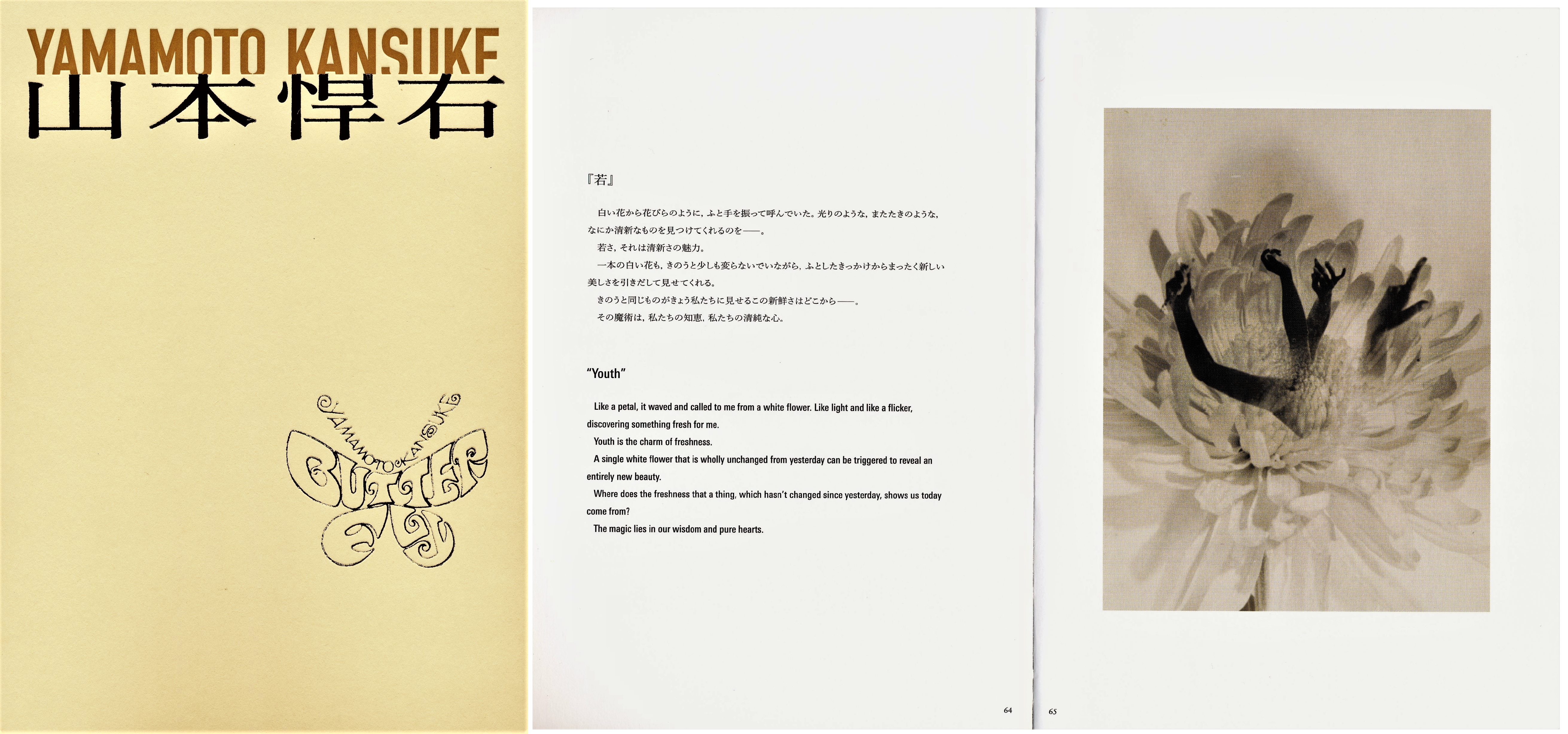 【山本悍右】 装幀；田中義久 2017年4月 日本芸術写真協会発行. “KANSUKE YAMAMOTO” Designed by Yoshihisa Tanaka, published by Fine-Art Photography Association (FAPA), 2017 Tokyo.